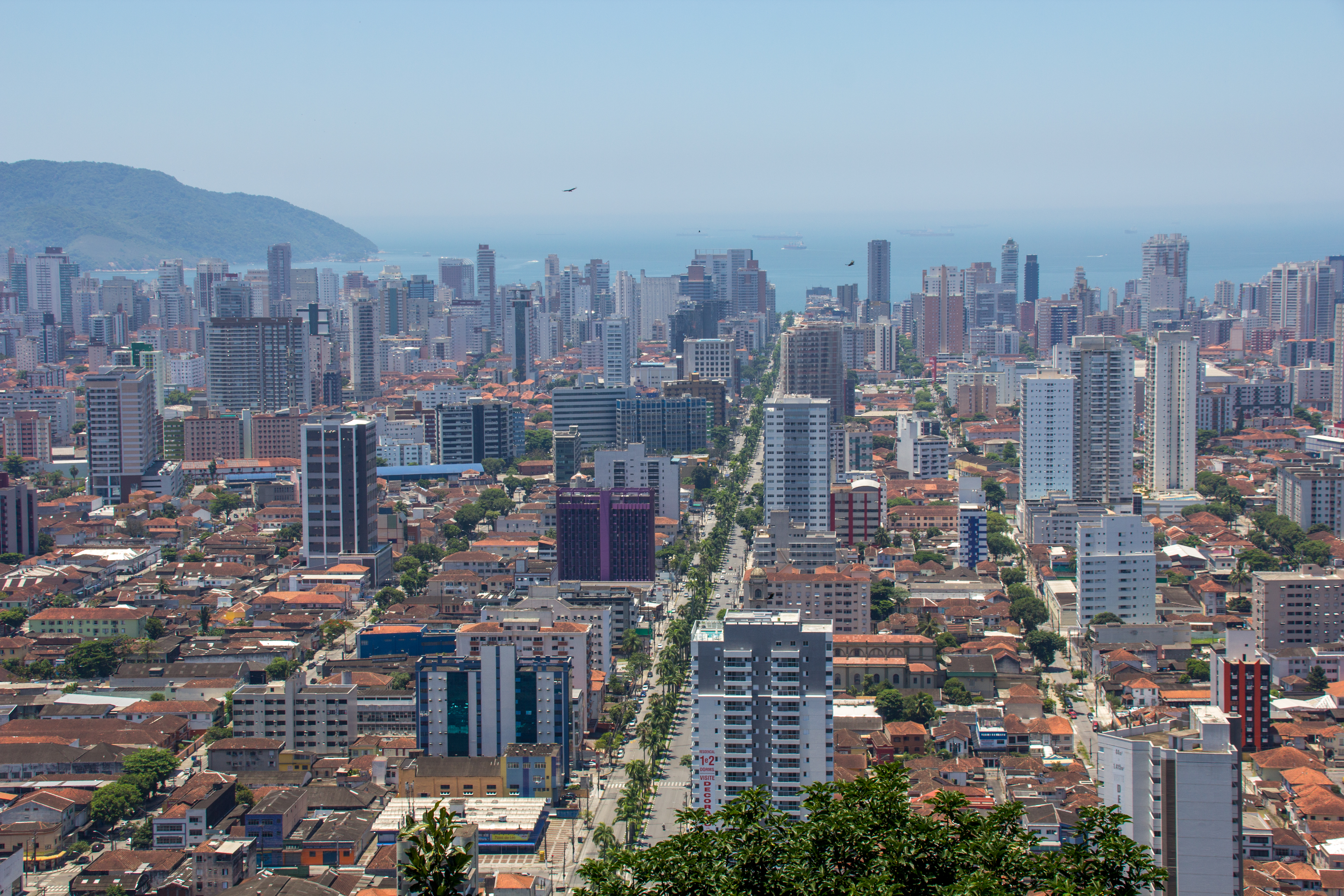 Santos, São Paulo, Brazil